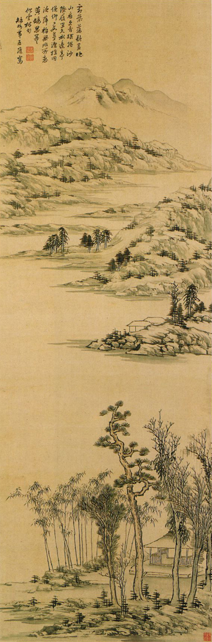 Landscape after Ni Zan's Poem ;hanging scroll,ink and light colors on silk 絹本着色